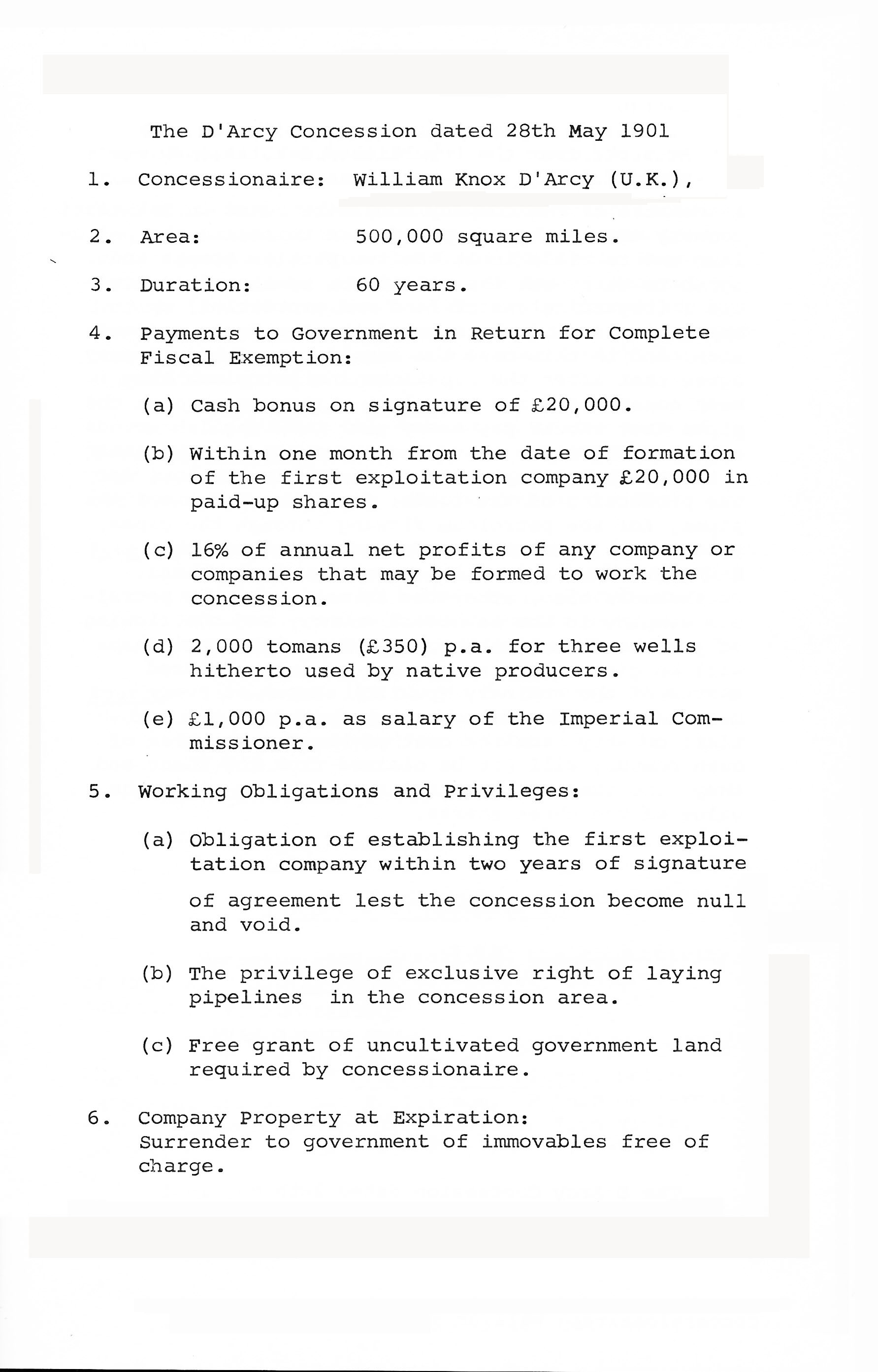 The D'Arcy Concession dated 28th May 1901